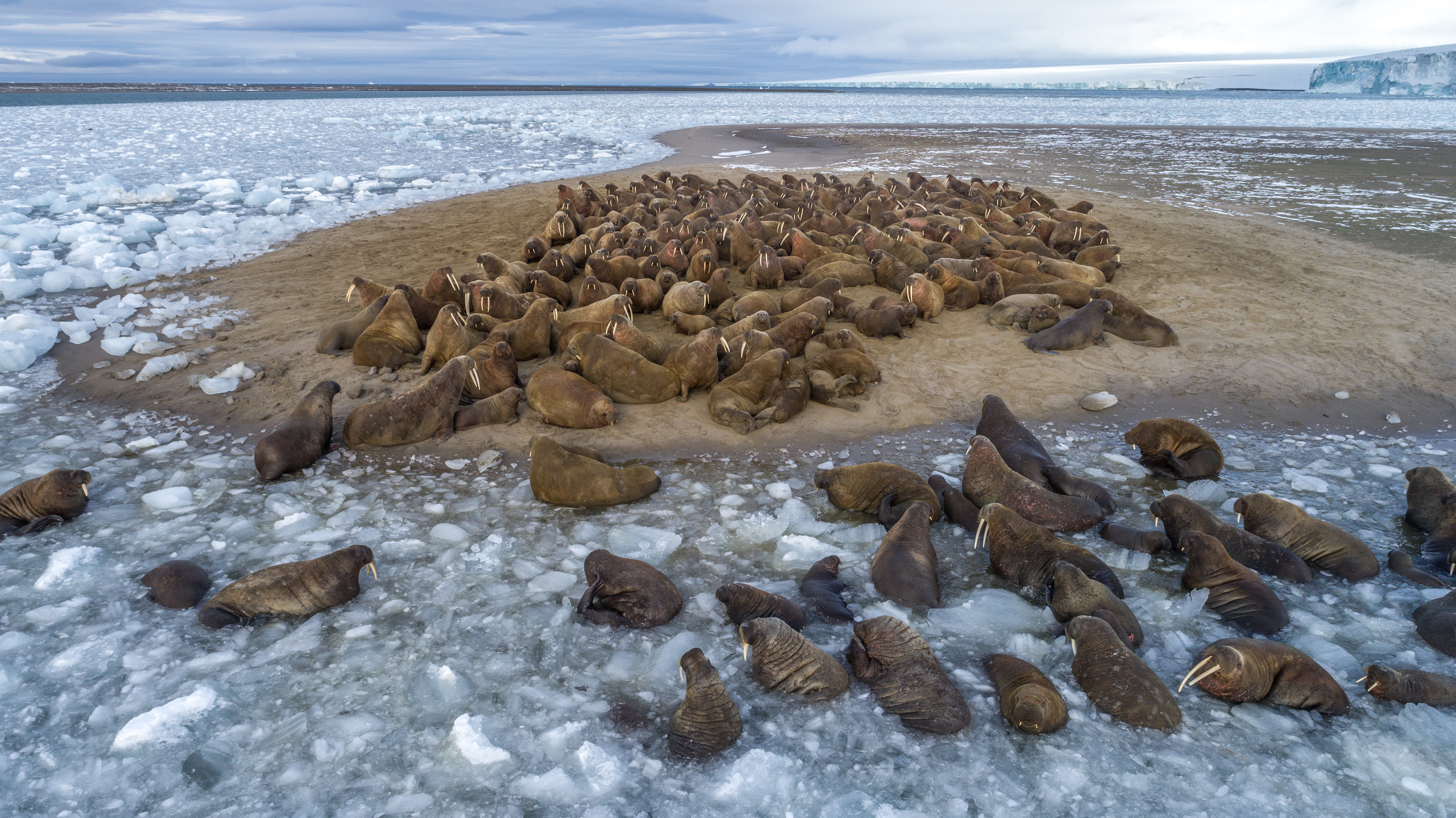 Walruses lying on Northbrook Island. Russian Arctic National Park. The picture was taken as part of the expedition In the footsteps of two captains by Maritime Heritage Associations